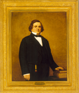 Portrait of Howell Cobb, by Harry Franklin Waltman, Oil on canvas, circa 1893, 66 1/4 x 56 1/2 x 3 1/2", US Treasury, #P.1893.3 Note: Painted from a pre-Civil War Matthew Brady photograph